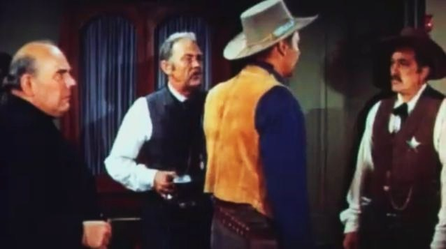 Left to right: James Westerfield, John McIntire, Joel McCrea, and Don Haggerty in The Gunfight at Dodge City (1959) - trailer (cropped screenshot)